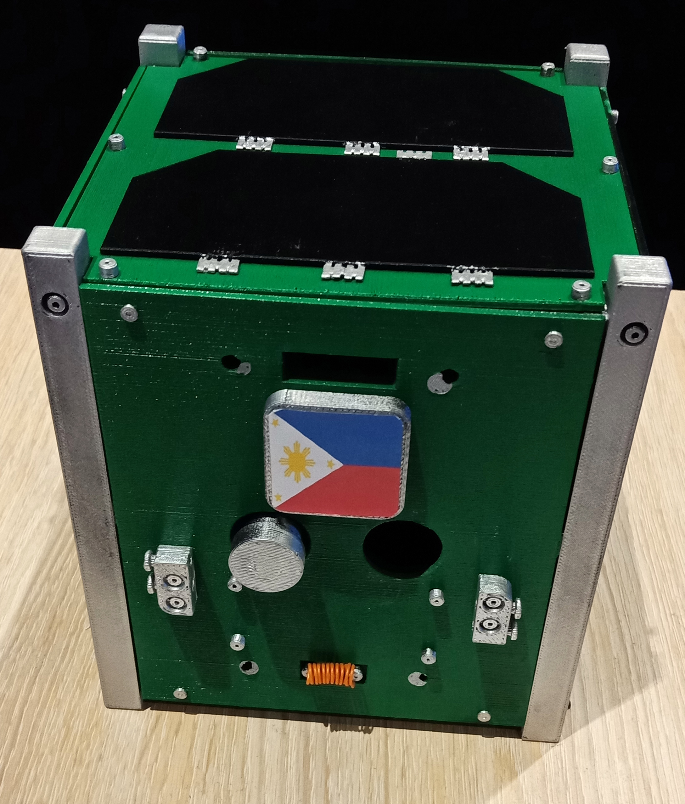 A model of the Maya-1 Nano Satellite of the Philippines. Photo taken during the 2018 National Science and Technology Week (NSTW) event at the World Trade Center in Pasay, Manila.